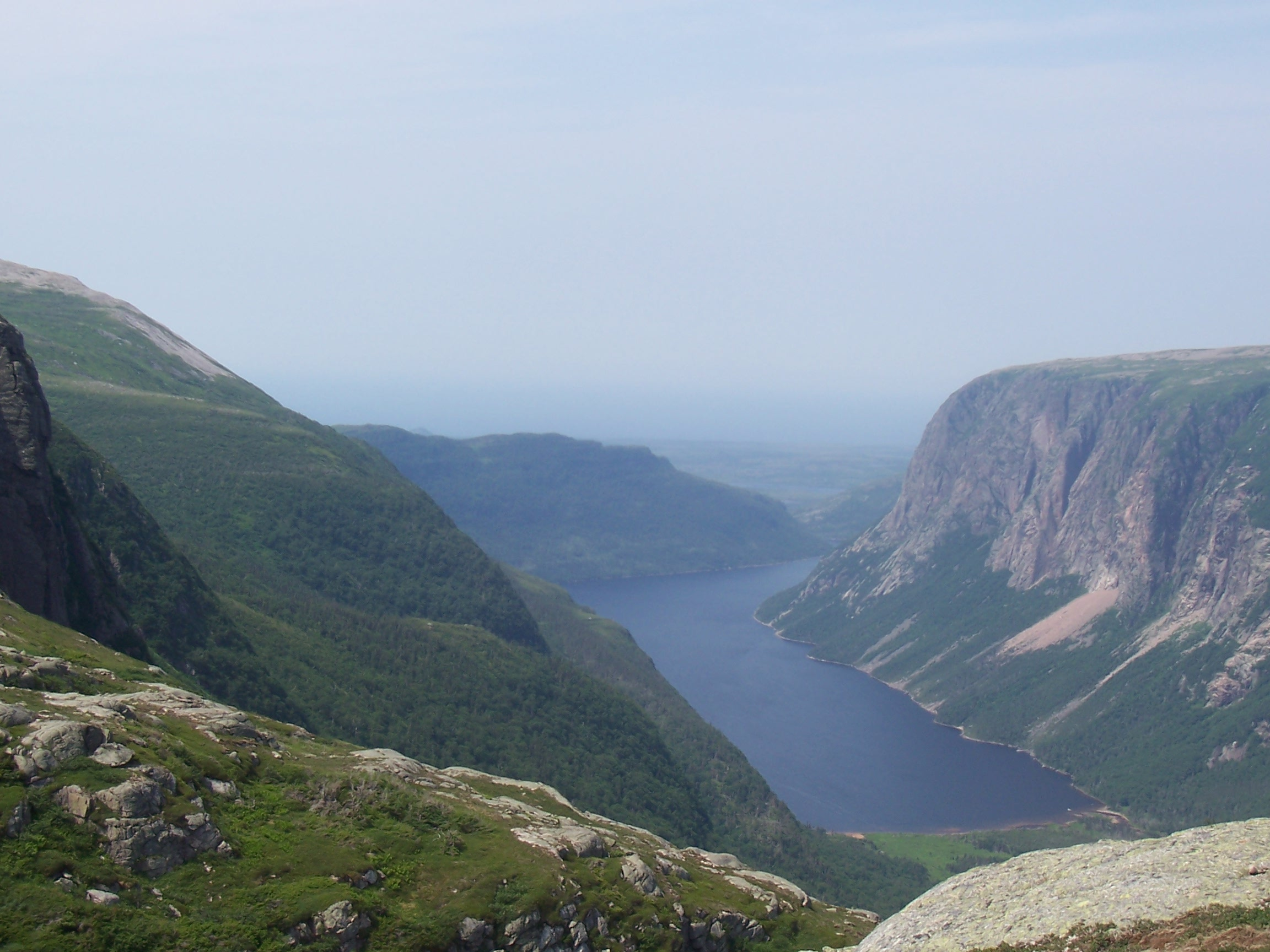 10 Mile Pond inside Gros Morne National Park